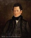 Portrait of Rep. John Bennett Dawson circa 1844-45. Attributed to C.R. Parker